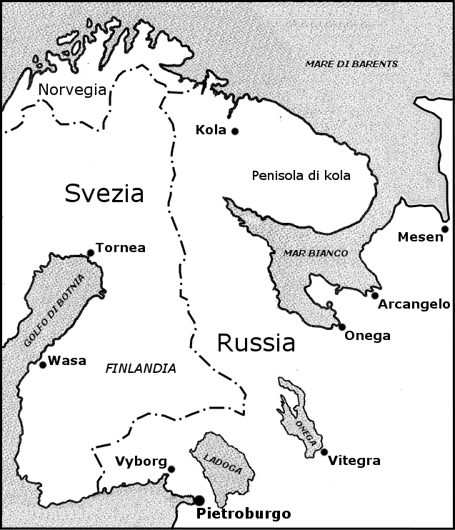 Finlad and Russia in 1709